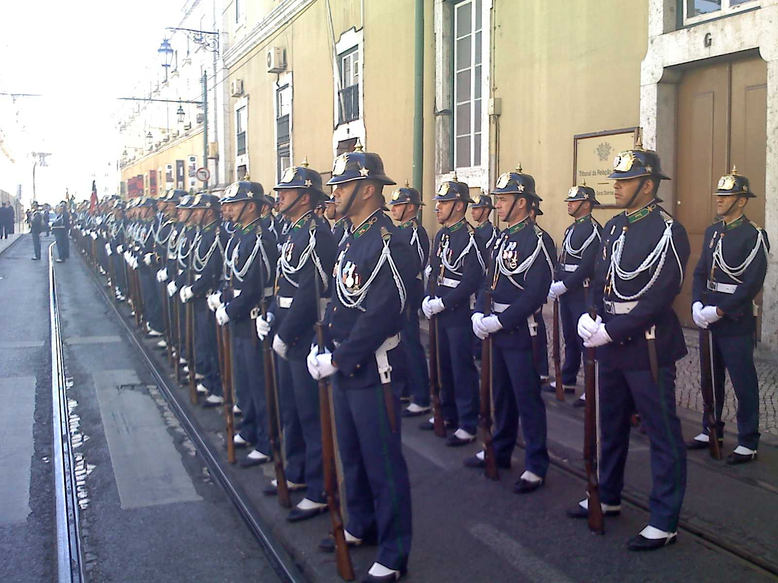 Portuguese National Republican Guard at the 5th October, 2011 cerimony.